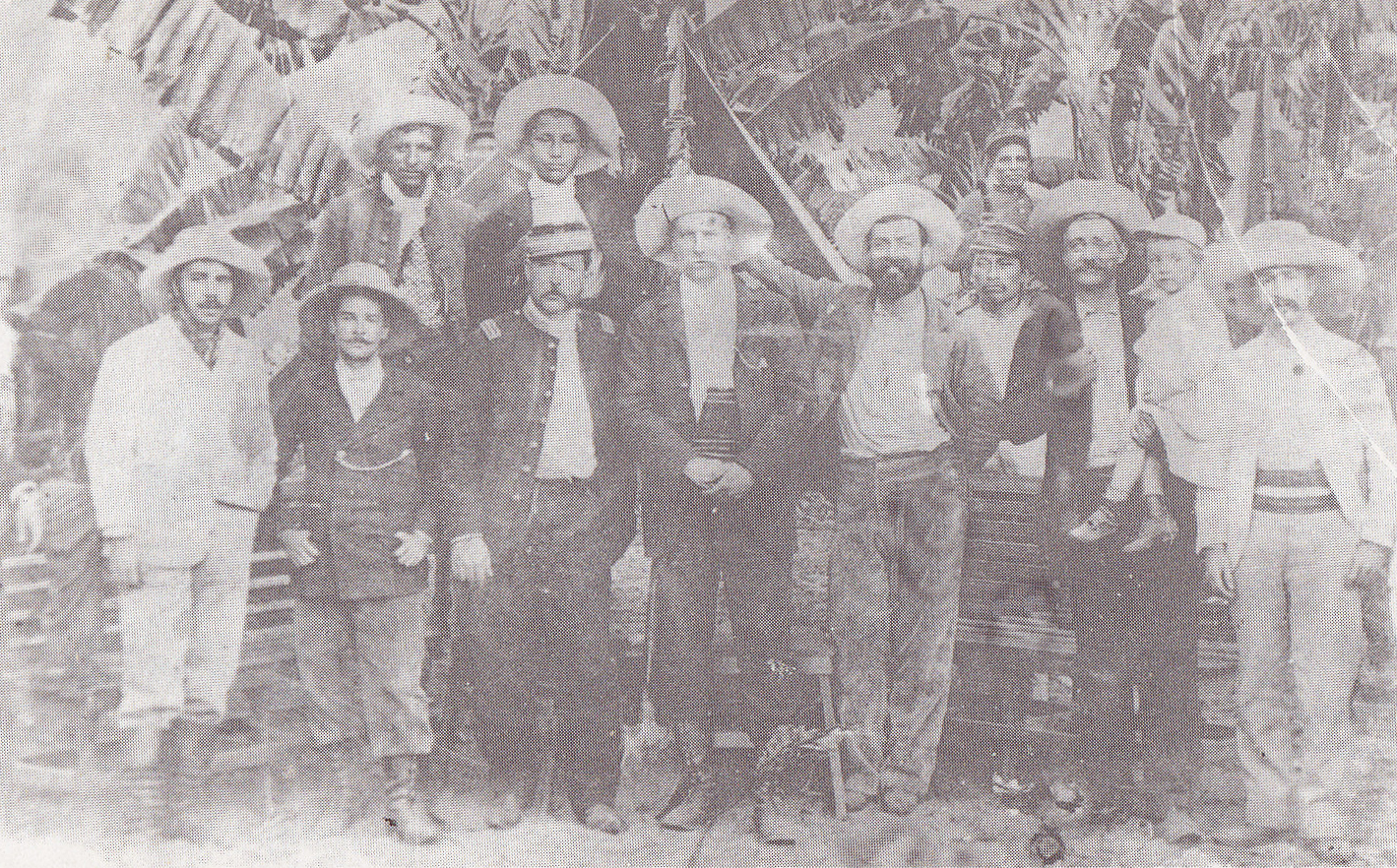 Montoneros al servicio de Cáceres